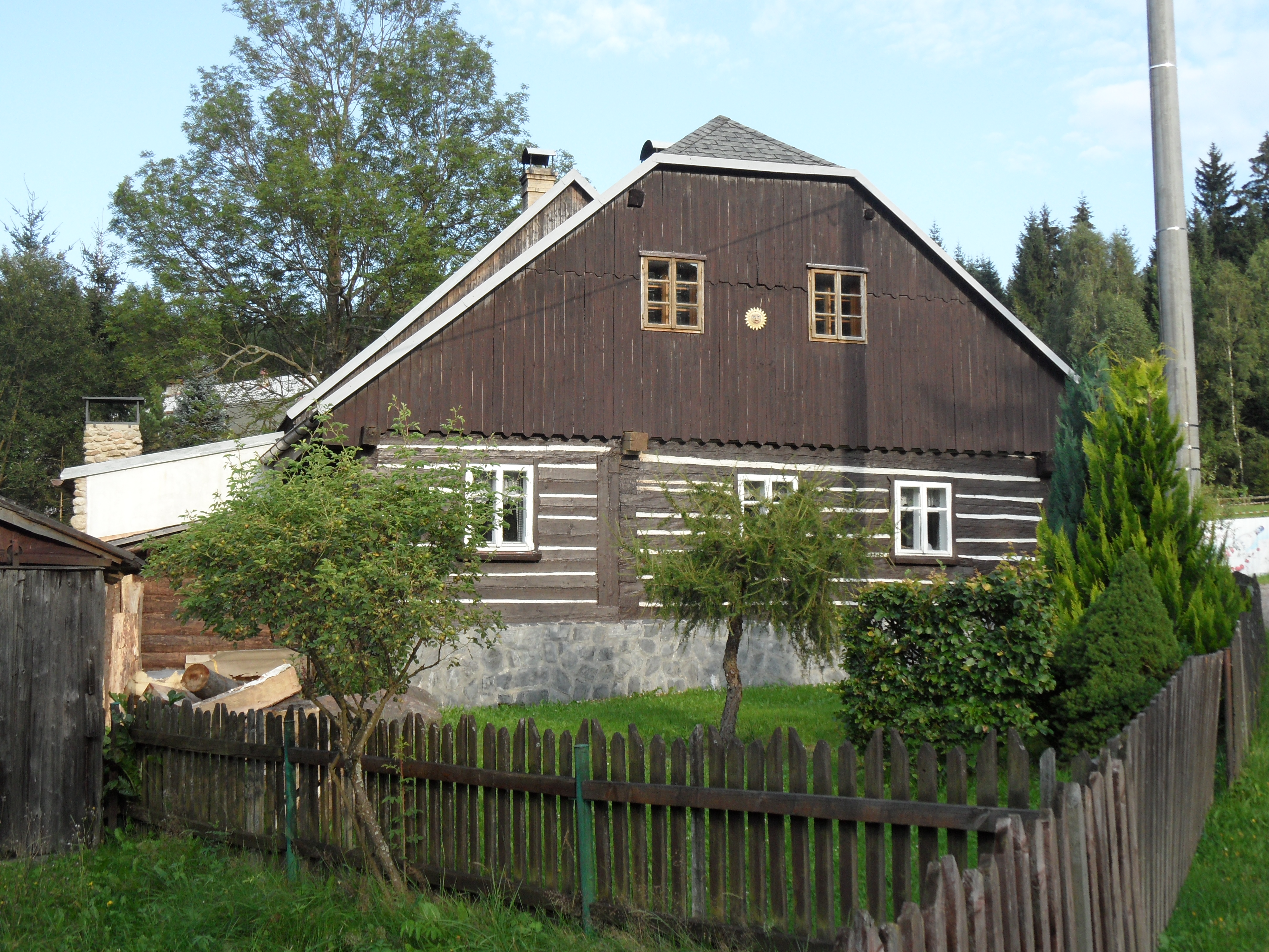 Horní Orlice (Červená Voda) A. Folk Architecture in the Village, Ústí nad Orlicí District, the Czech Republic.